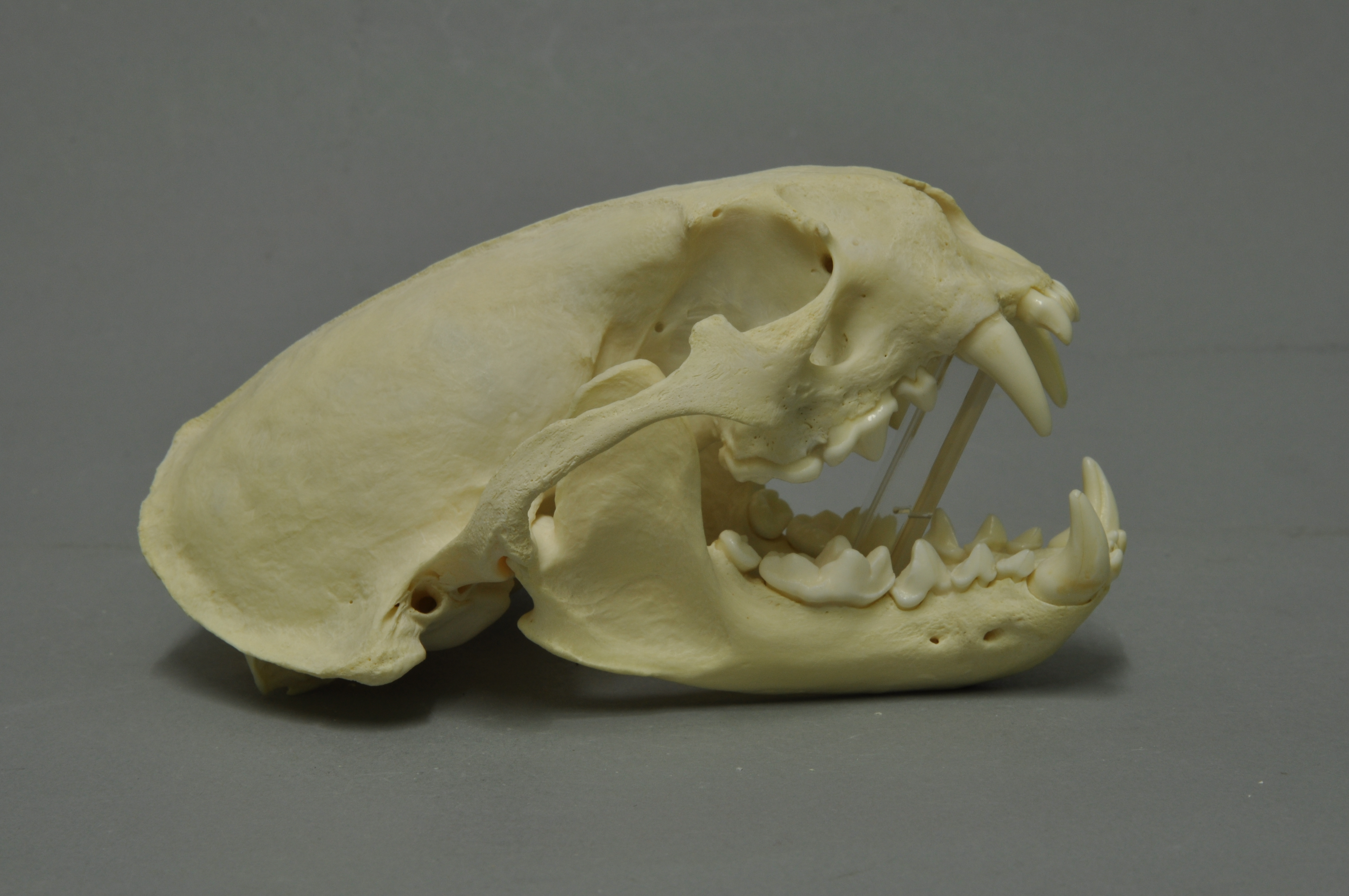 African clawless otter Aonyx capensis, skull, Coll. Museum Wiesbaden